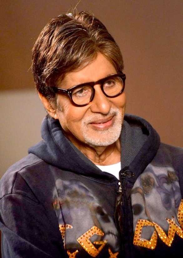 Amitabh Bachchan shoots for Disney's Captain Tiao